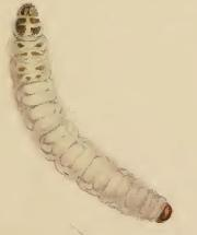 Stainton’s Natural History of the Tineina (1855–1873): Coleophora obscenella larva